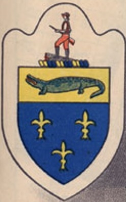 328th Infantry Regiment (United States) Distinctive Unit Insignia